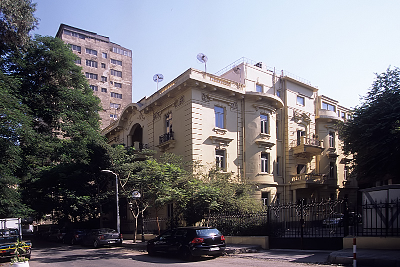 Villa Choukair, Citybank, Garden City, Cairo, Egypt